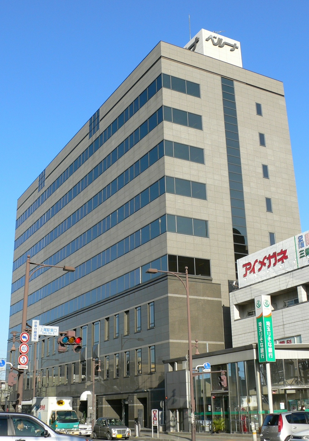 Belluna_Head_office in Ageo city ,Saitama ,Japan.